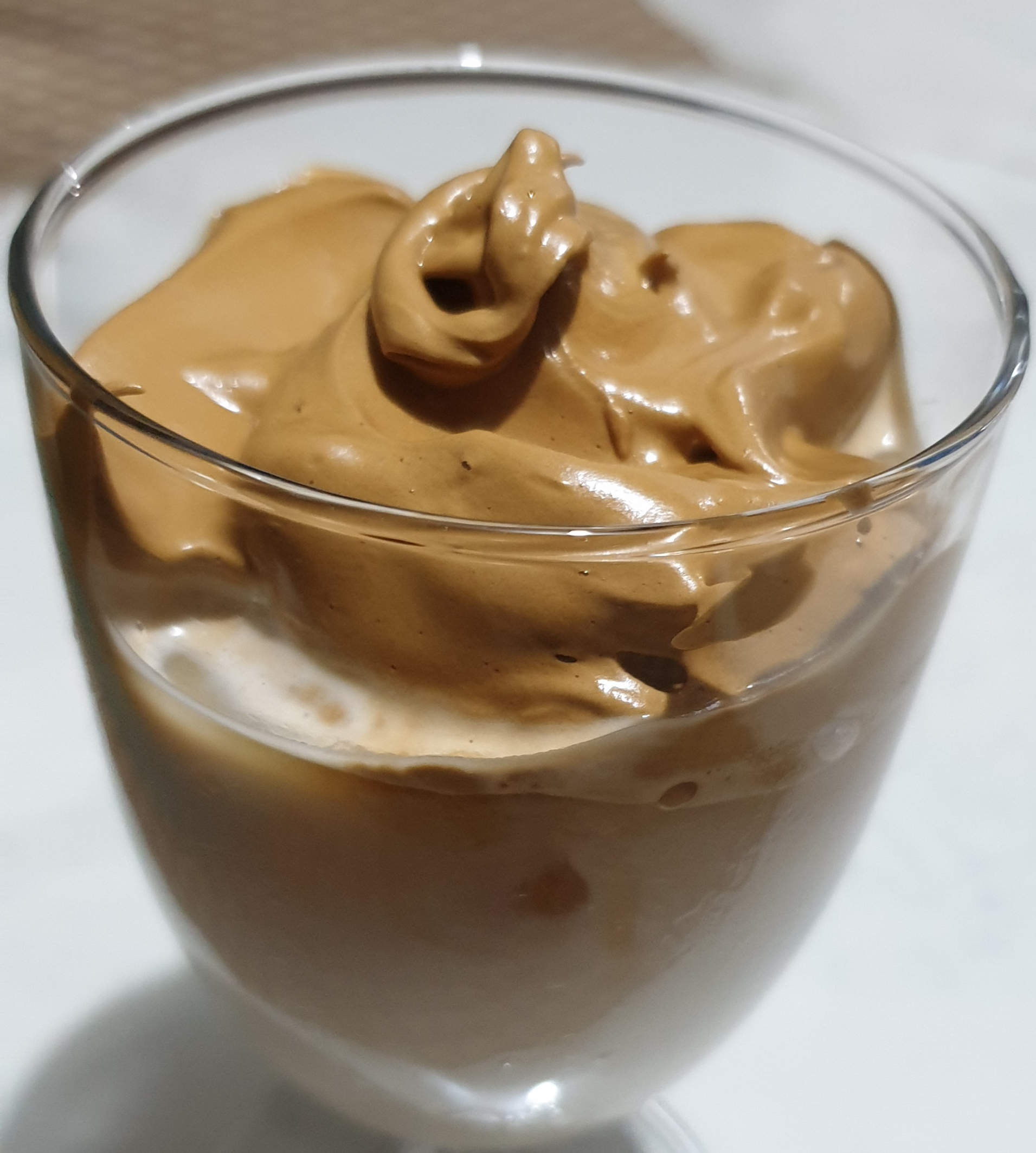 Dalgona coffee made by had-whisking instant coffee powder, sugar and a bit of water. Poured over iced milk.